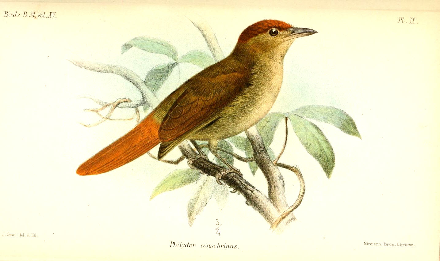 Philydor consobrinus = Automolus rufipileatus, Chestnut-crowned Foliage-gleaner